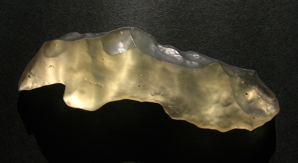 Libyan Desert Glass, a impact glass found in the Great Sand Sea of the Libyan-Egyptian Libyan Desert.